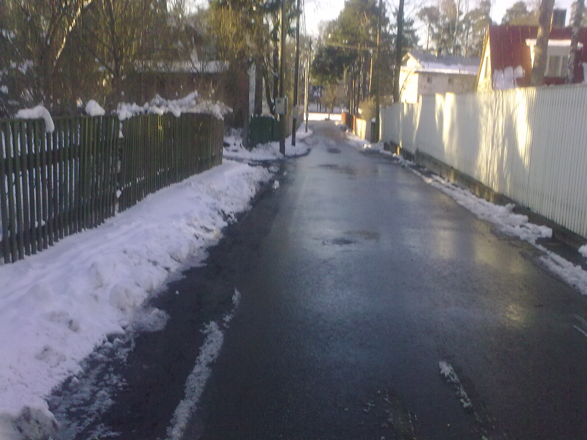 Väike tänav, Nõmme, Tallinn, Estonia